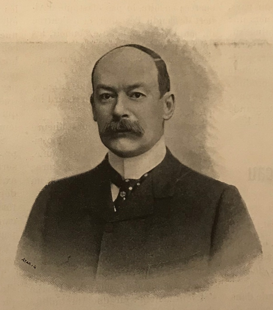 Swiss Minister